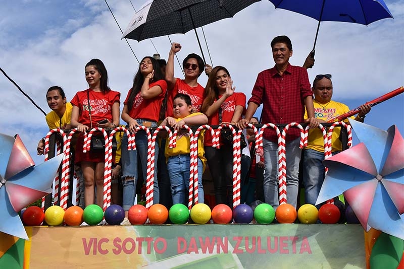 Cast of Meant to Beh greeting fans from their float.